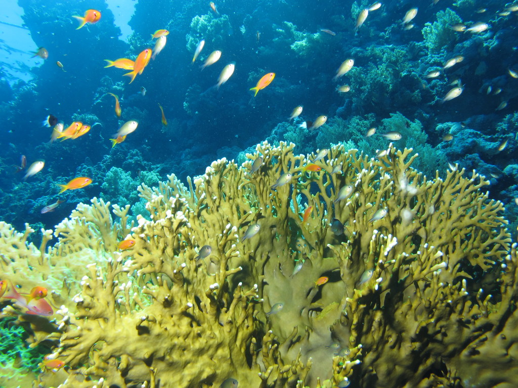 Fire coral, looking up